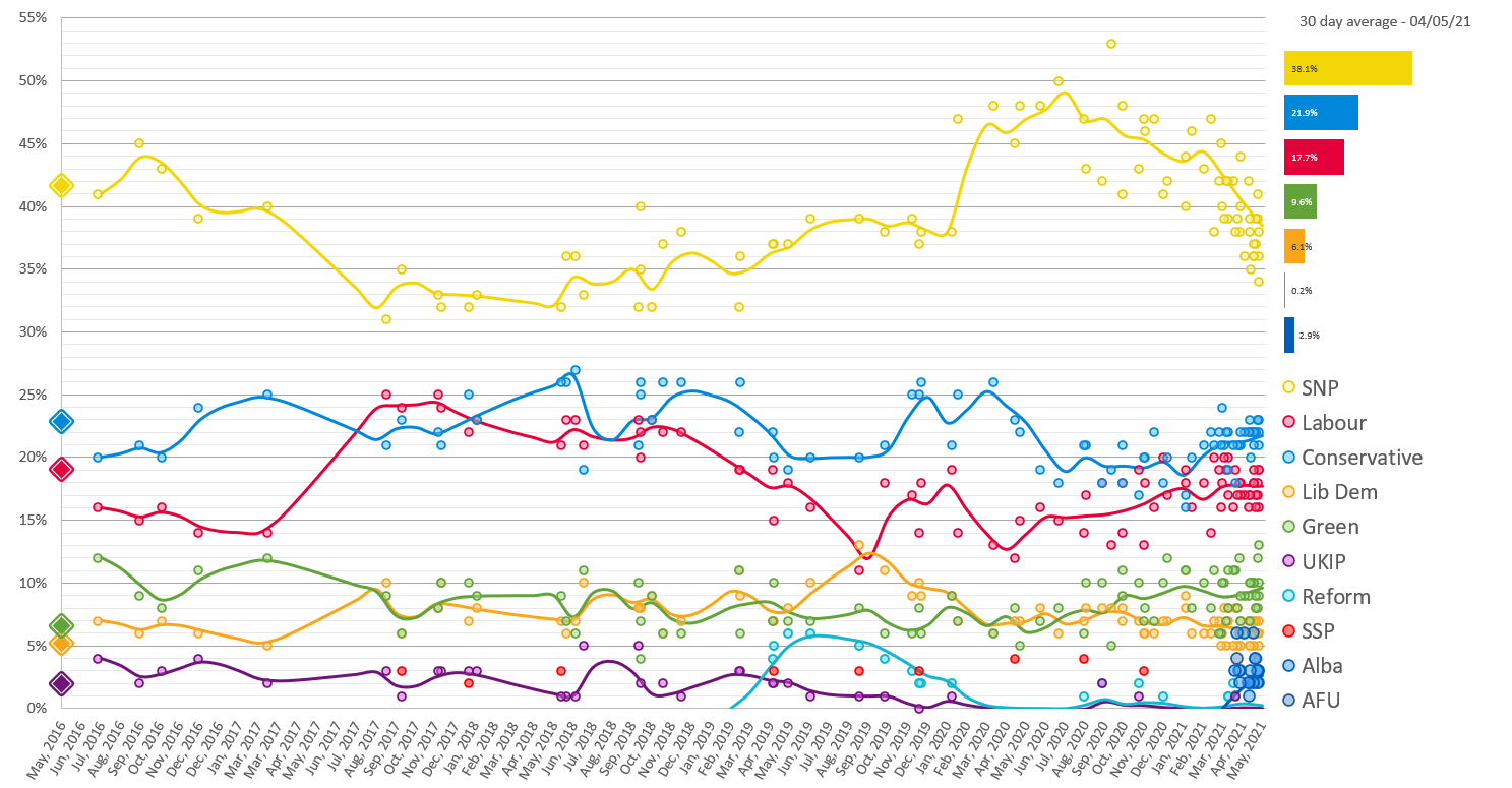 Opinion polling for the next Scottish Parliament election (regional vote) with average 30 day trendline.